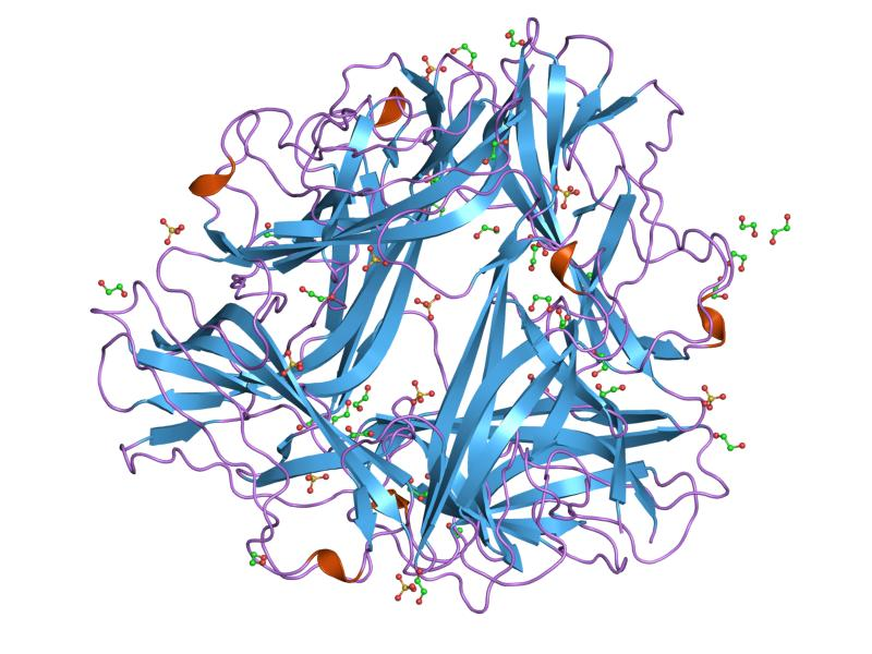 Cartoon representation of the molecular structure of protein registered with 1ut1 code.